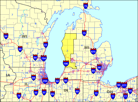 Map of Michigan's 2nd congressional district for the en:106th United States Congress, illustrating boundaries prior to redistricting in 2002.